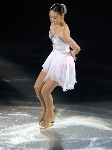 Yukari Nakano during her exhibition program at the 2007 Cup of Russia